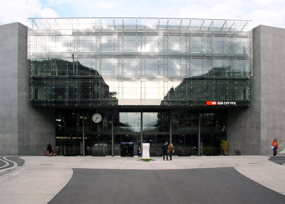 Description: Bahnhof Zug in Zug Source: photo taken by me, October 2004 Photographer: Baikonur